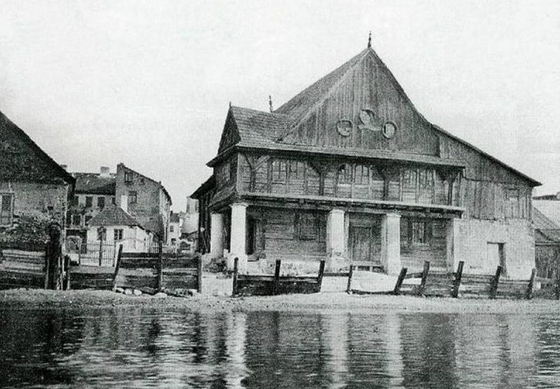 Wooden synagogue of Przedborz seen from the river Pilica